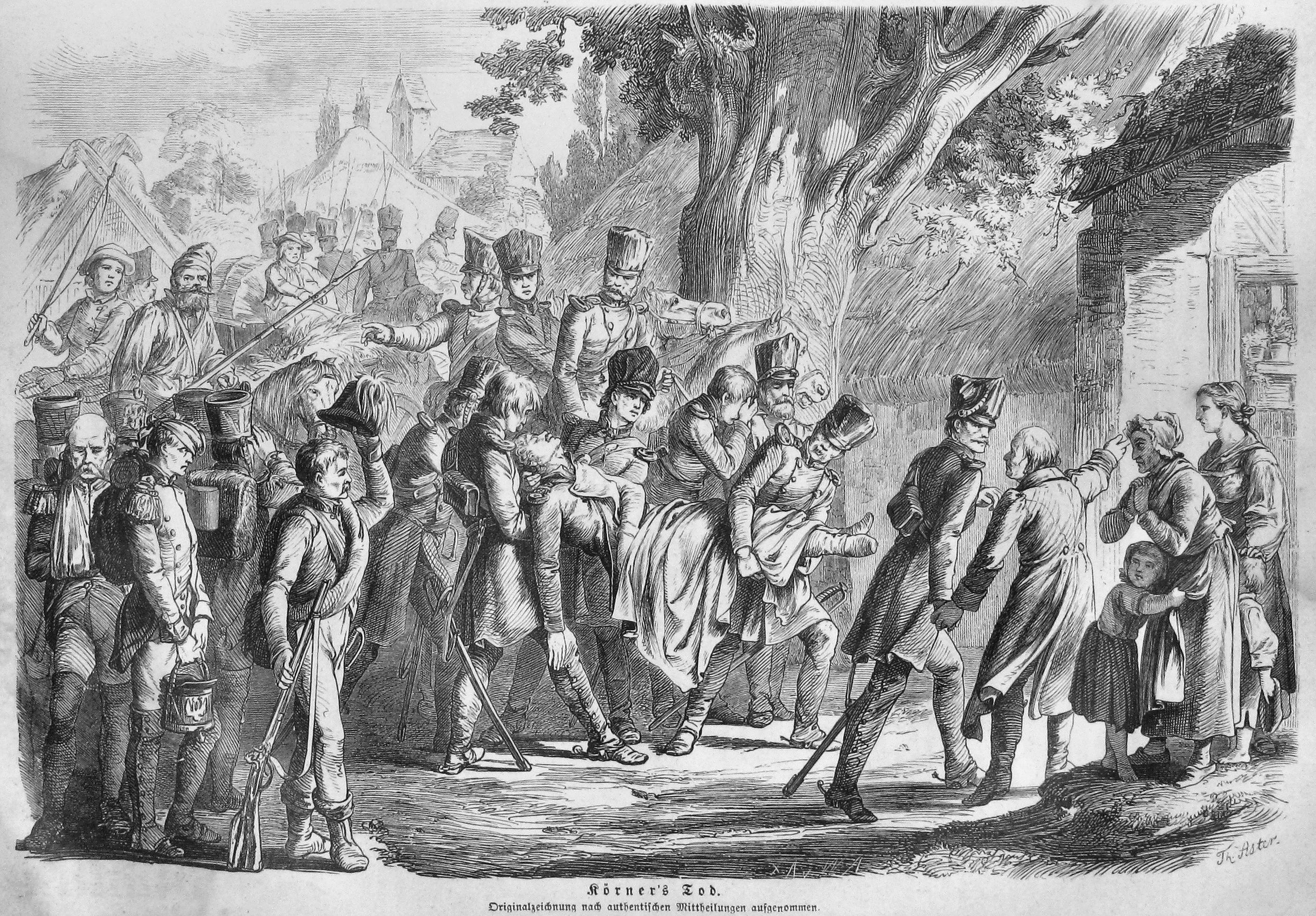 caption: "Körner’s Tod. Originalzeichnung (von Th. Aster) nach authentischen Mittheilungen aufgenommen."